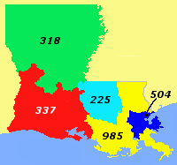 Map showing area codes for the state of Louisiana in 5 colors.